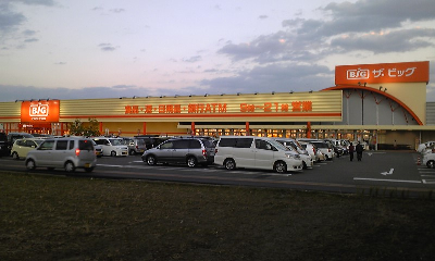 This is a picture of "BIG".